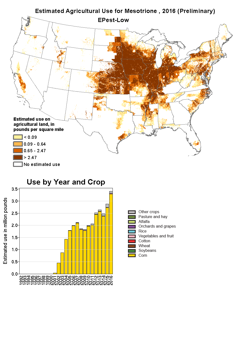 Map showing US Geological Survey estimate of mesotrione use in the USA in 2016